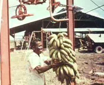 This image has been cut from File:Bananenoogst.ogv, and shows the banana harvest in Jarikaba, Suriname